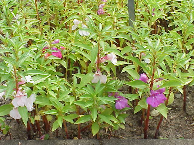 Species: Impatiens balsamina Family: Balsaminaceae Image No. 2